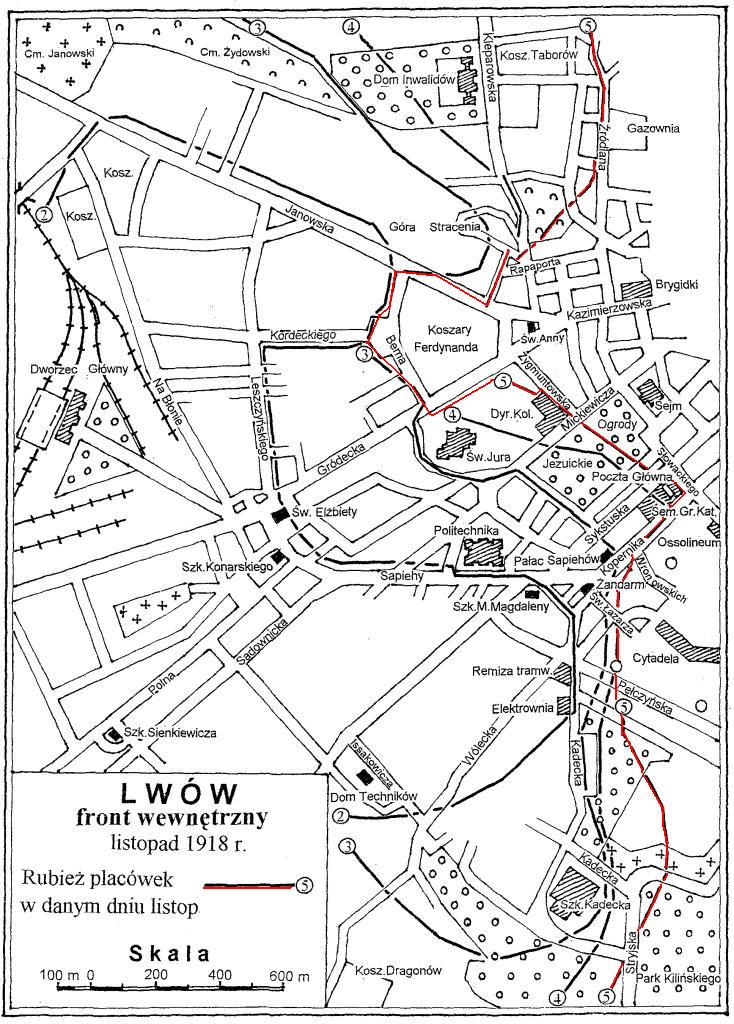 Line separating the branches of Poles and Ukrainians army on November 5, during the defense of Lviv by the Poles in 1918.